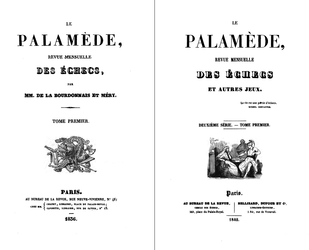 Front cover of the French magazine Le Palamède